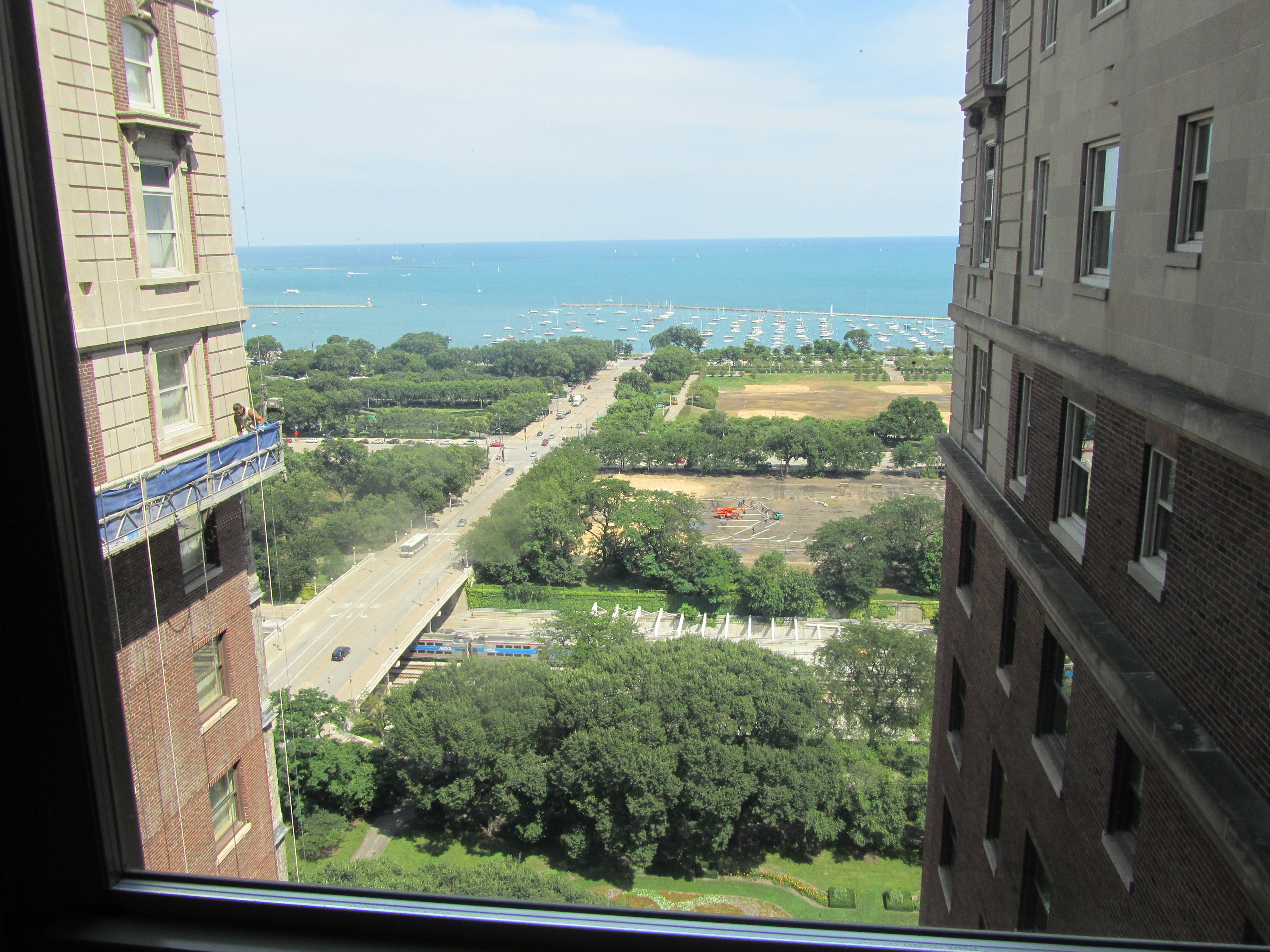 Hilton Chicago - view from the restaurant on the 18th floor with the hotel's own window cleaning system on the left